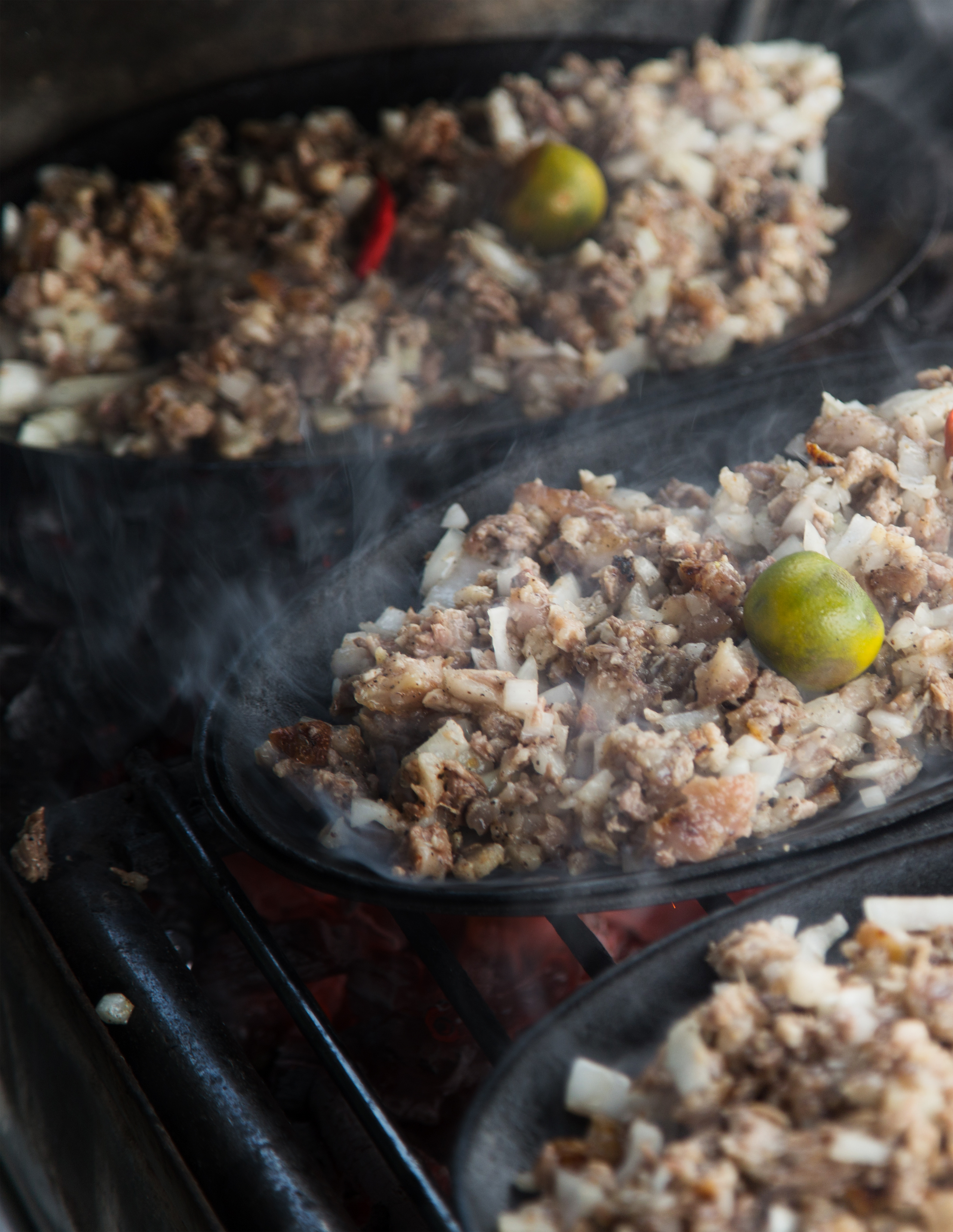 Sísig